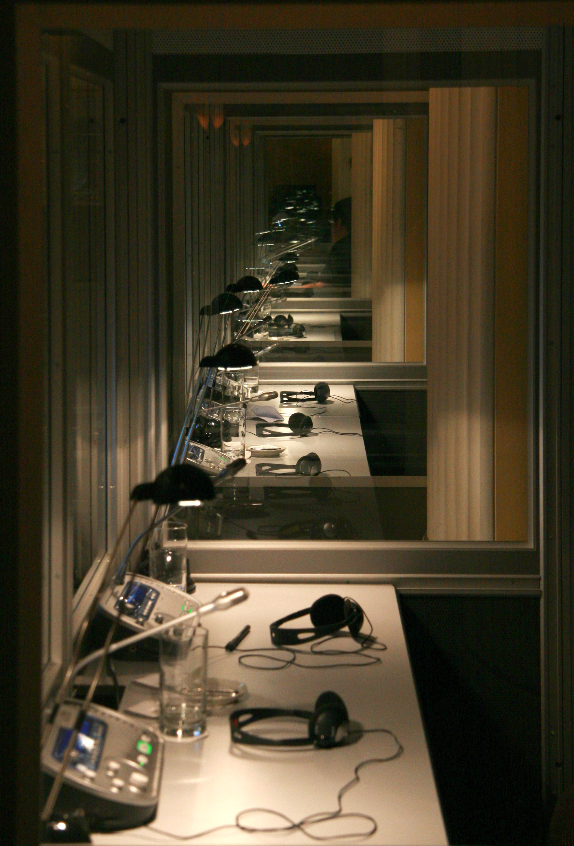 45th Munich Security Conference 2009: Impressionen: The cabin of the translators.